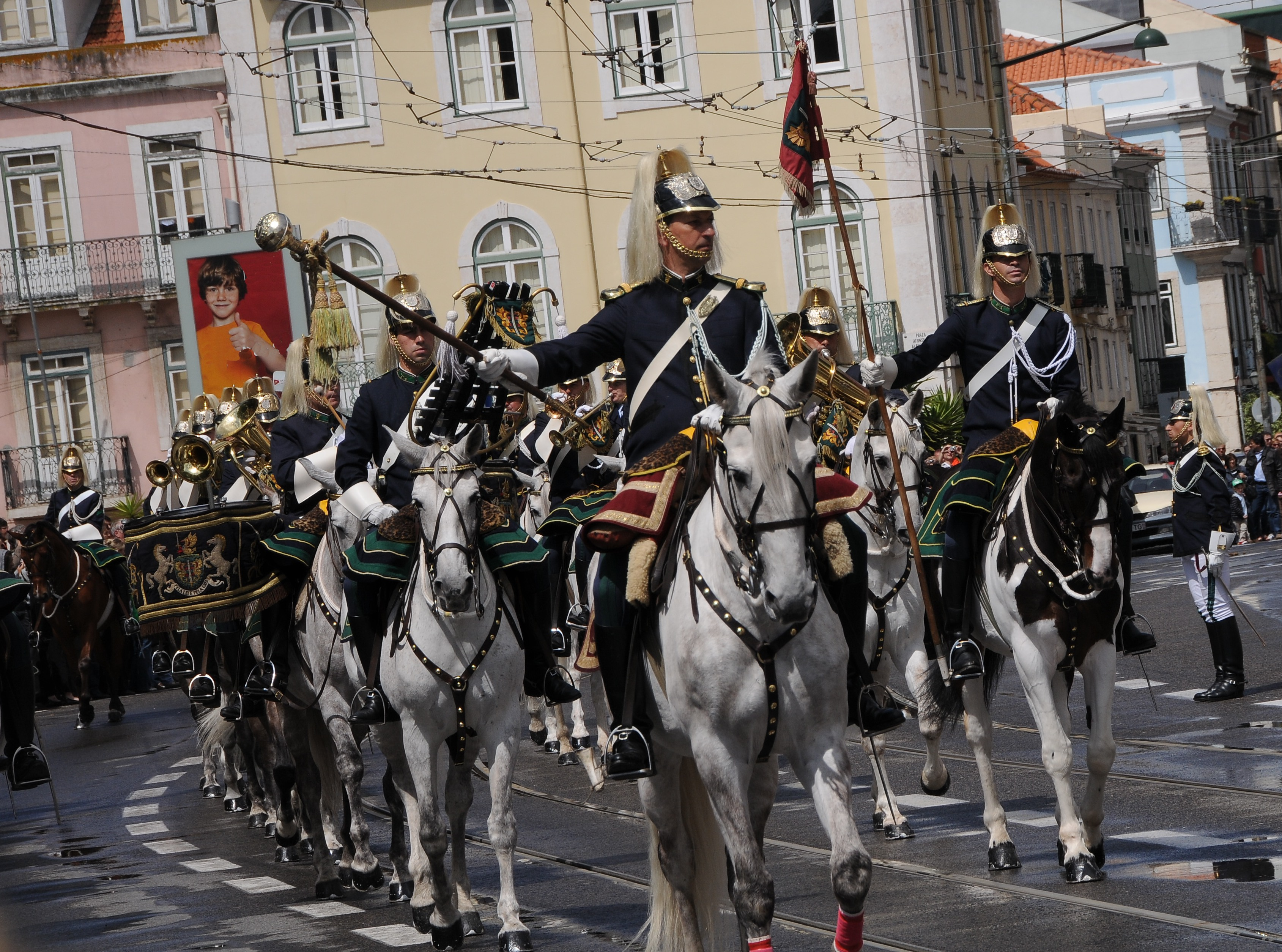 Changing of the Guard in Palácio Nacional de Belém, Lisbon, Portugal